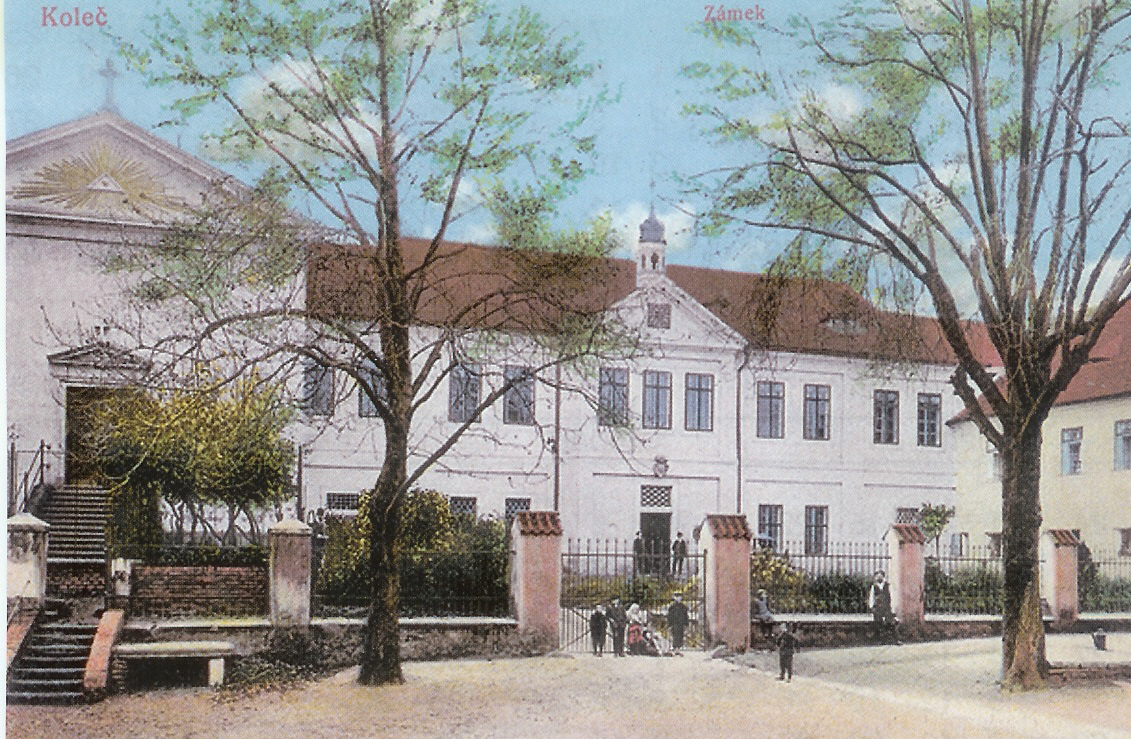 Koleč Chateau, Kladno District, Czech Republic. Old postcard. Chapel of the Holy Trinity (then a parish church for the village) can be seen in the left.